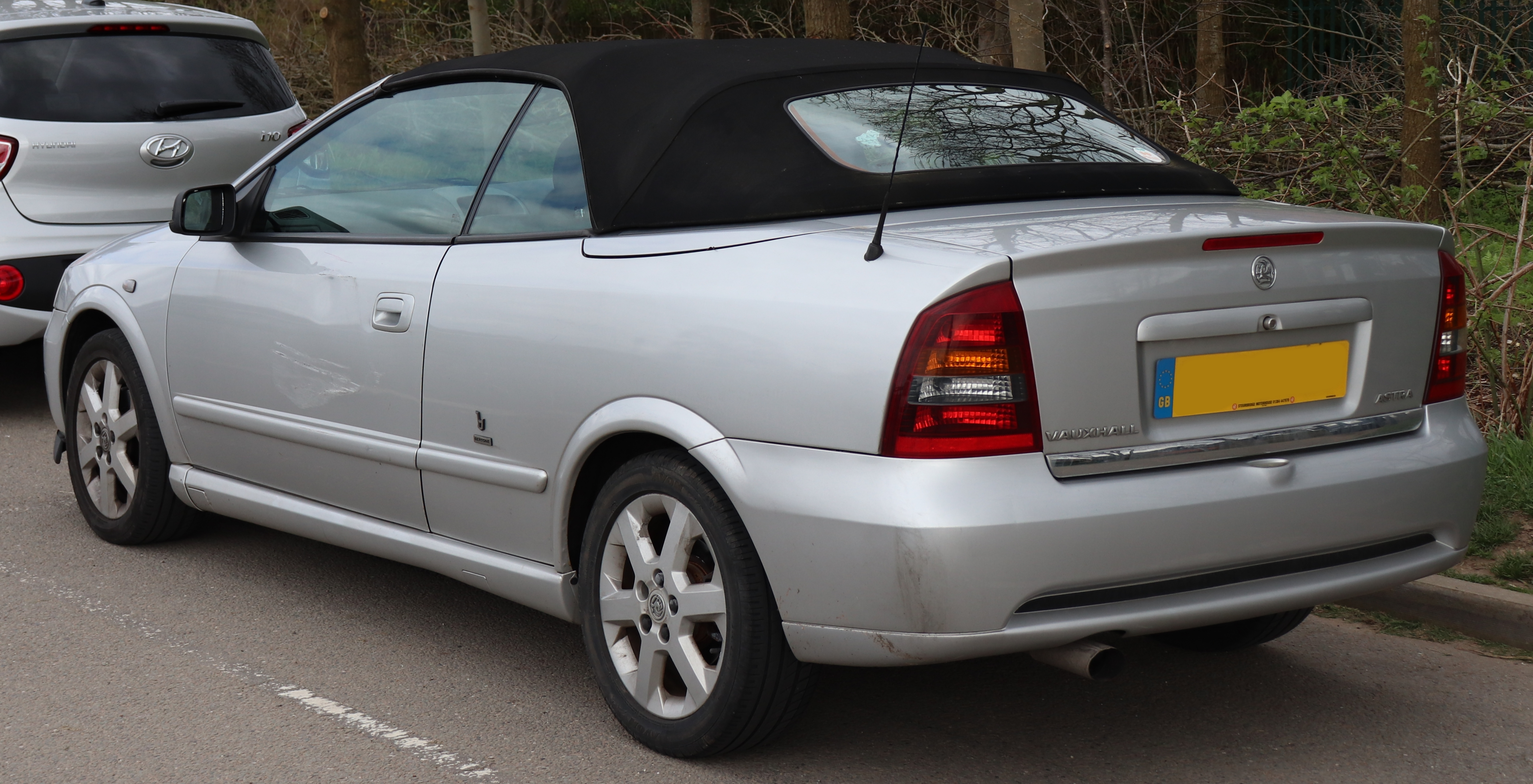 2003 Vauxhall Astra Coupe Convertible 1.8 Rear Taken in Warwick